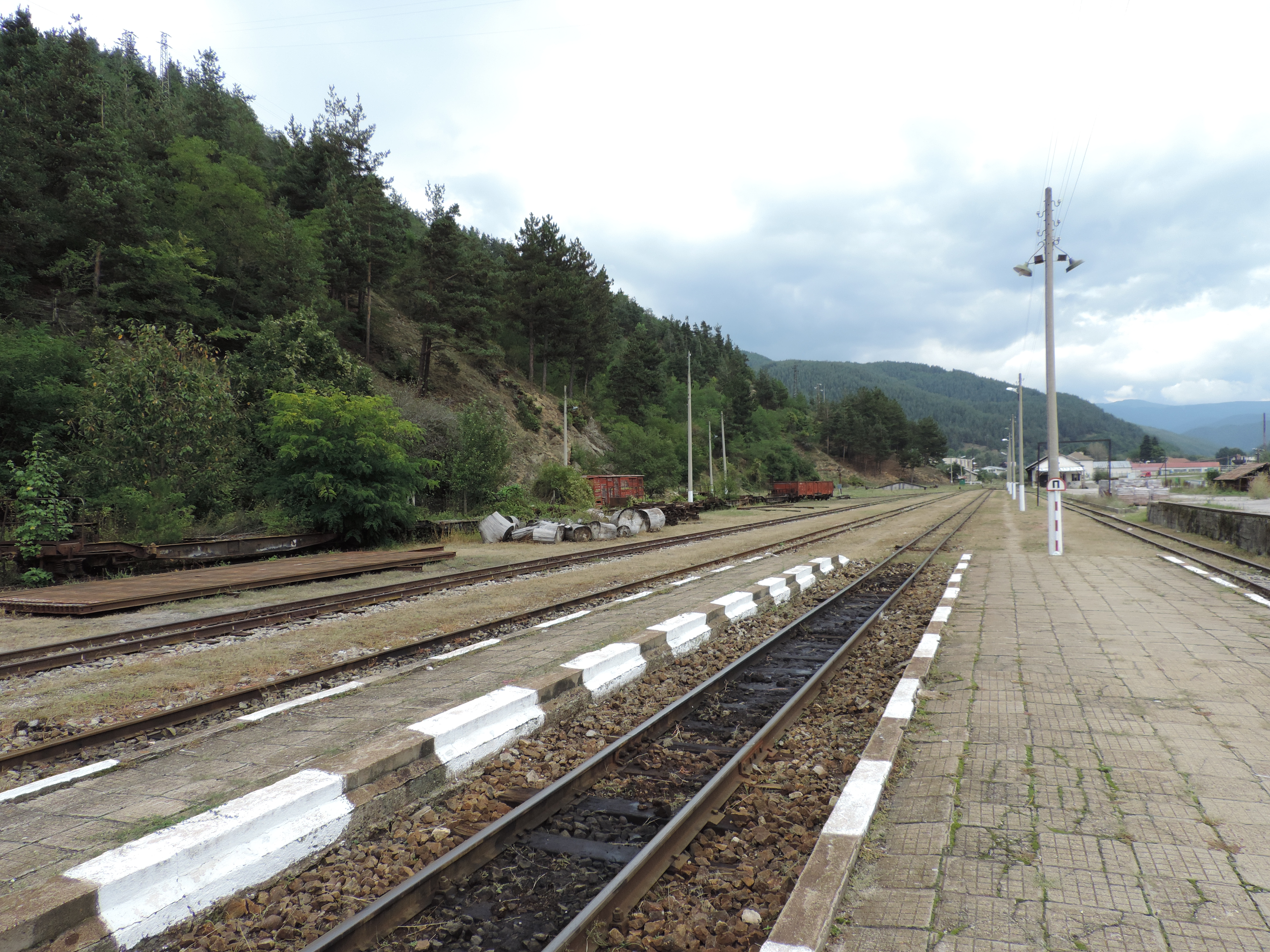 Yakoruda railway station, Bulgaria